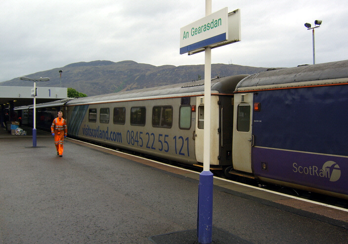 Arrival at Fort Wiliam (An Gearasdan in Gaelic) of the overnight sleeper train from London.